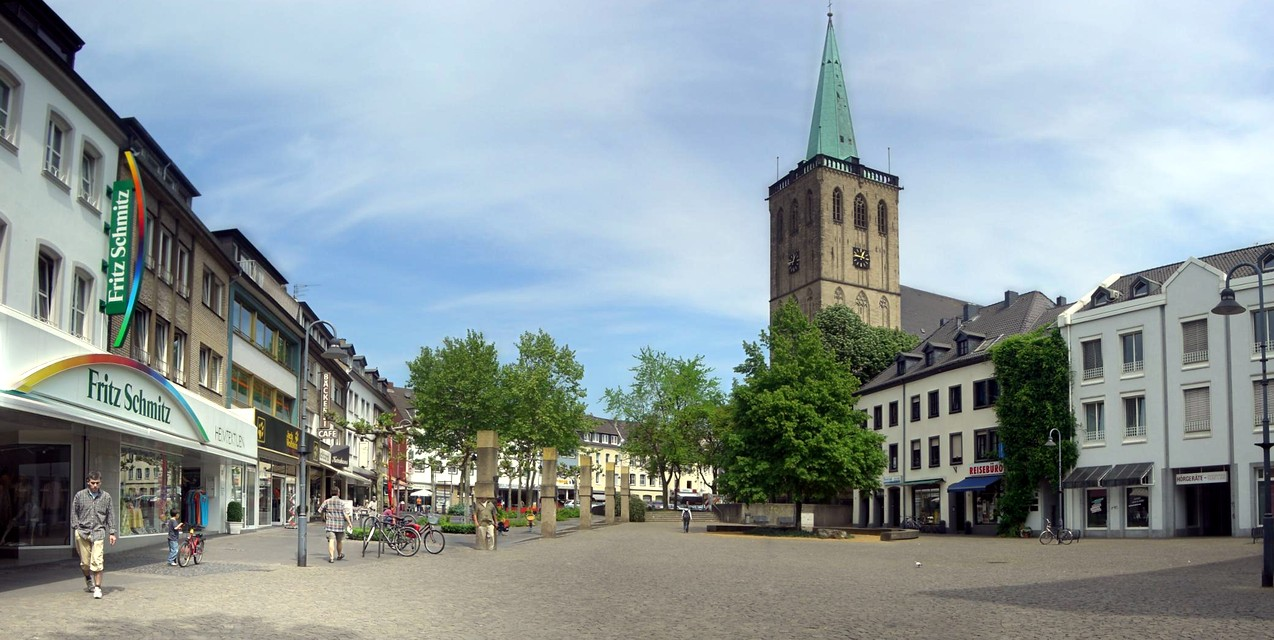 Panoramic view of the Remigius square (church of Saint Remigius in the back) in the german town Viersen